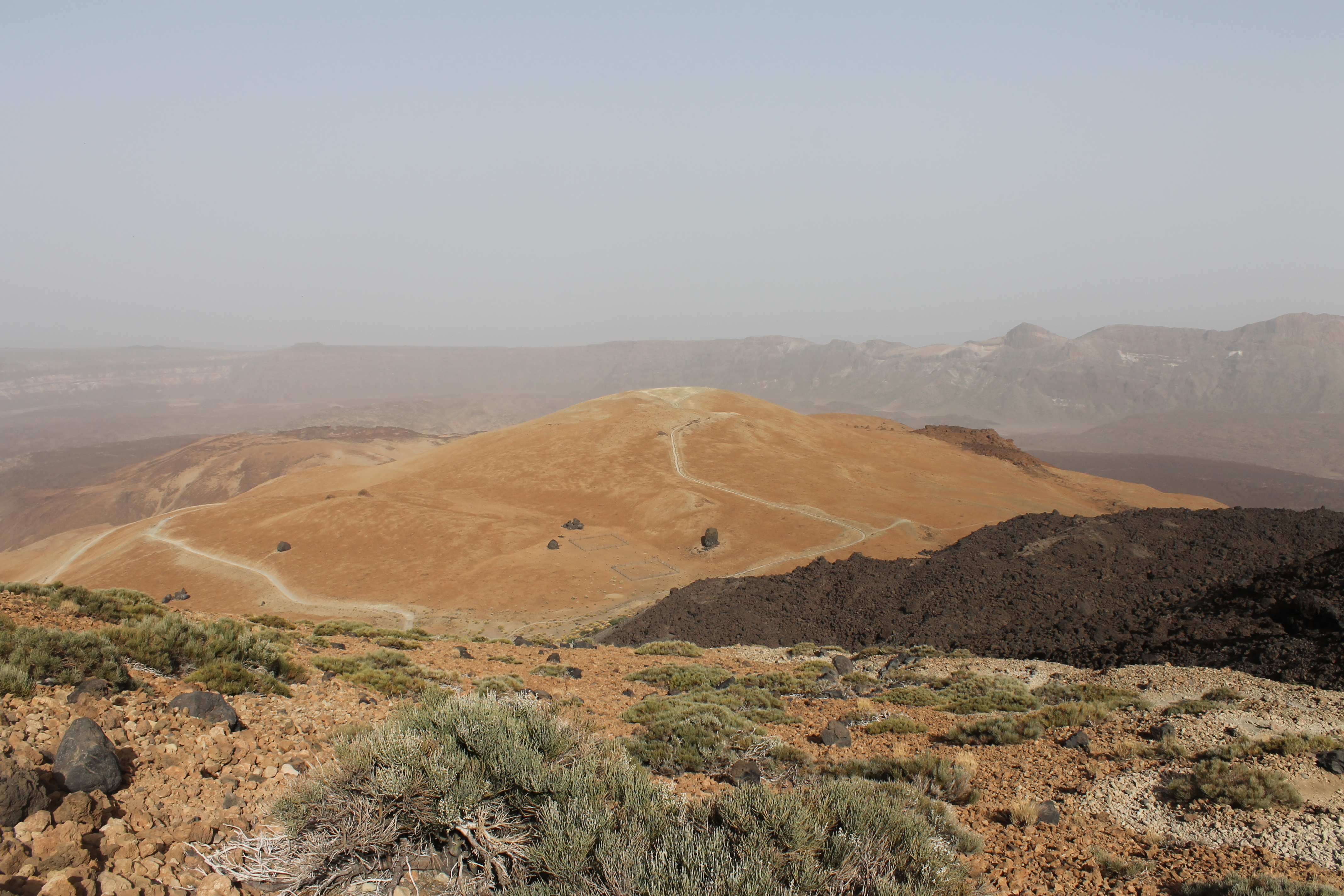 Montaña Blanca in Teide National Park